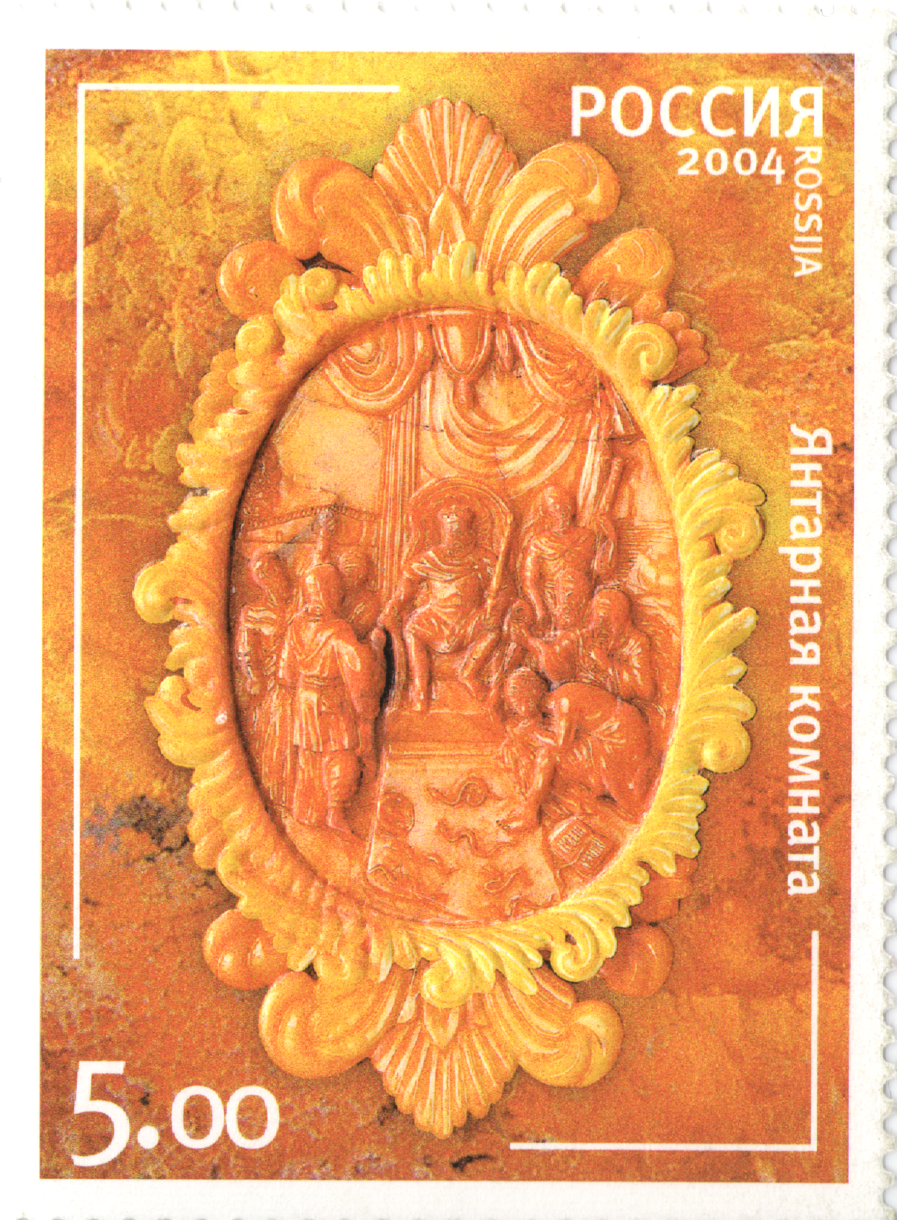 Russian postal stamp of Amber Room. Cost 5 rubles.